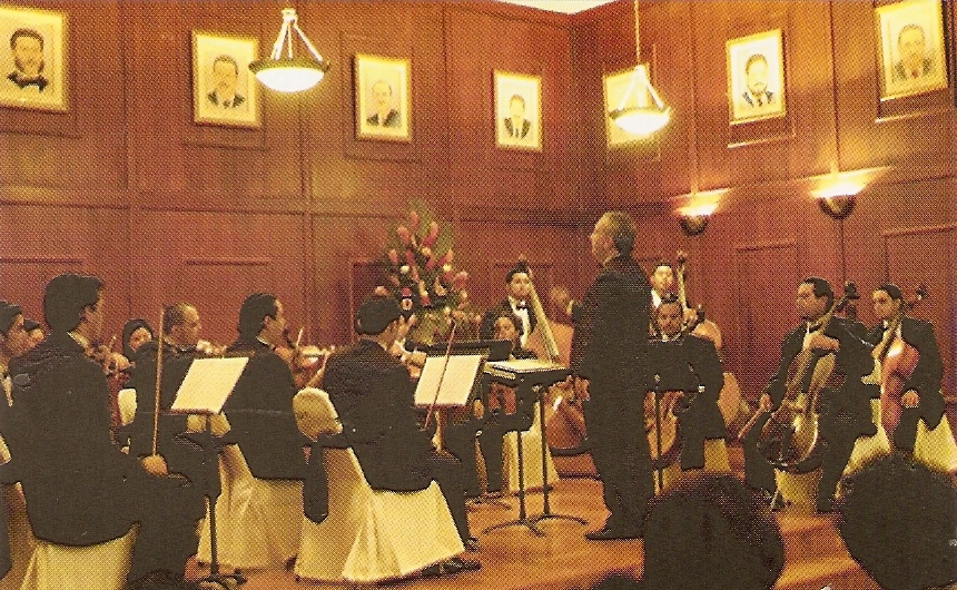 Chamber Orchestra of San Pedro Sula playing in the City Hall.